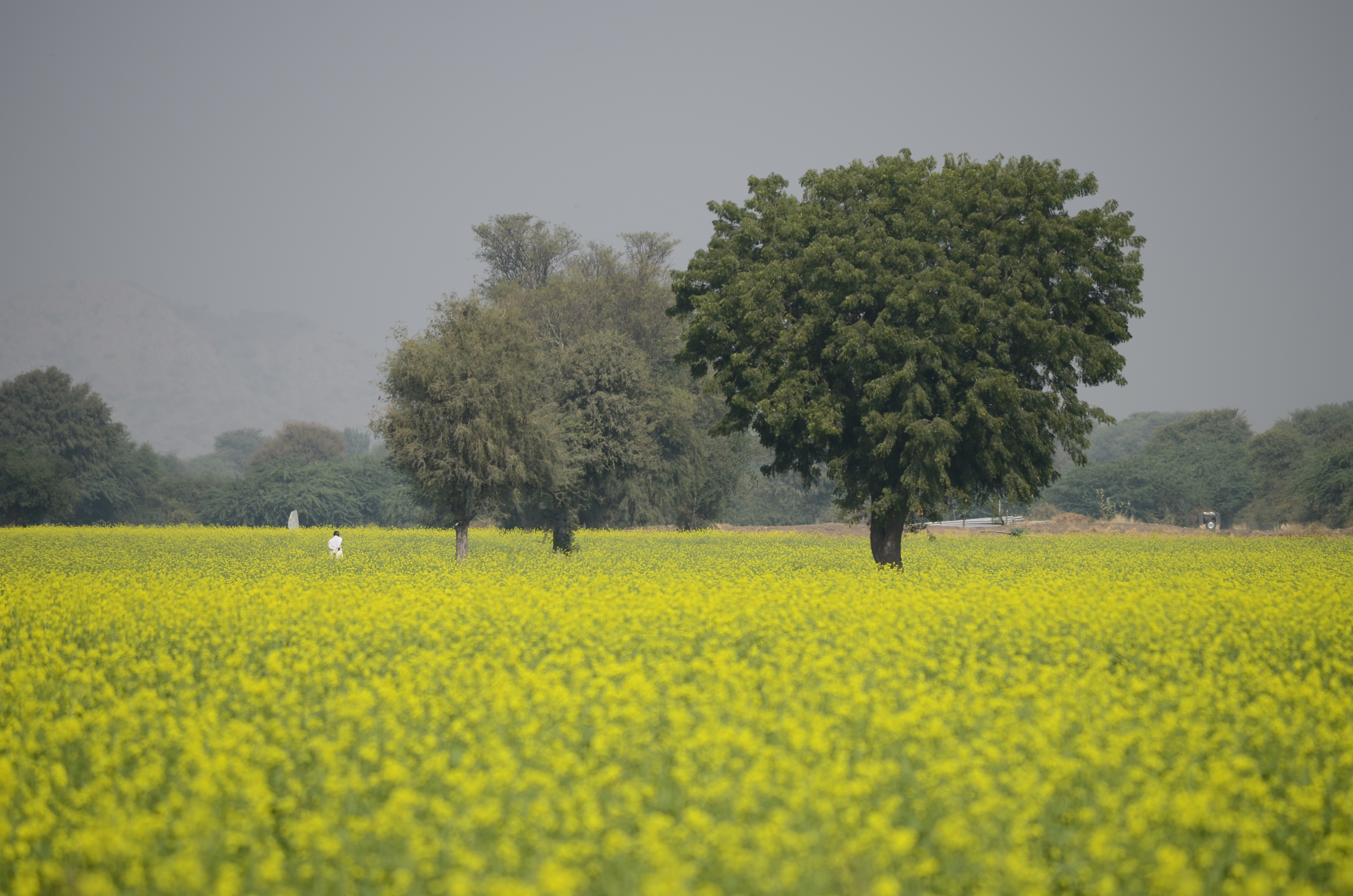 Rural life, farms, agriculture in India Rajasthan, India 2012